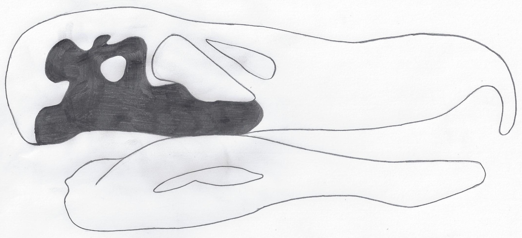 sketch of the skull of MMP-S155, a specimen of Mesembriornis milneedwardsi, based on "Systematic Revision of the Phorusrhacidae (Aves: Ralliformes)" (Alvarenga, H.M.F. & Höfling, E. 2003), figure 26 D